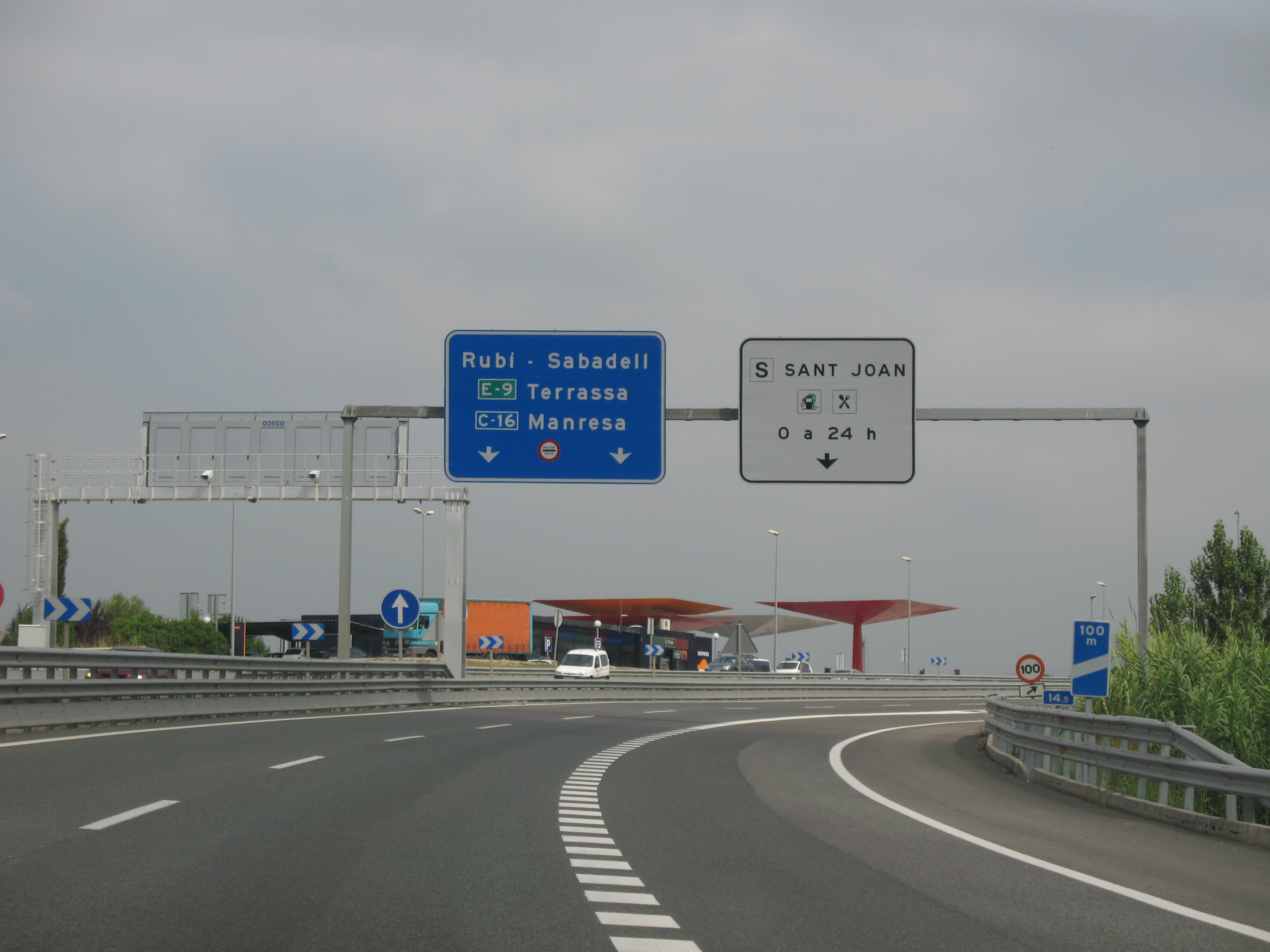 San Joan's rest area at the km.14 on the C-16 catalan motorway.